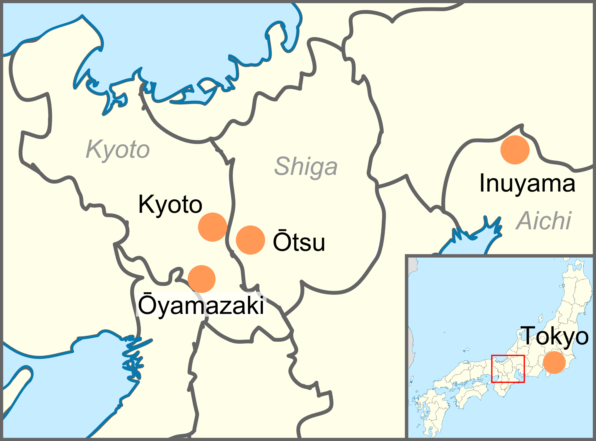 Map showing the location of National Treasures of Japan in the category residences.